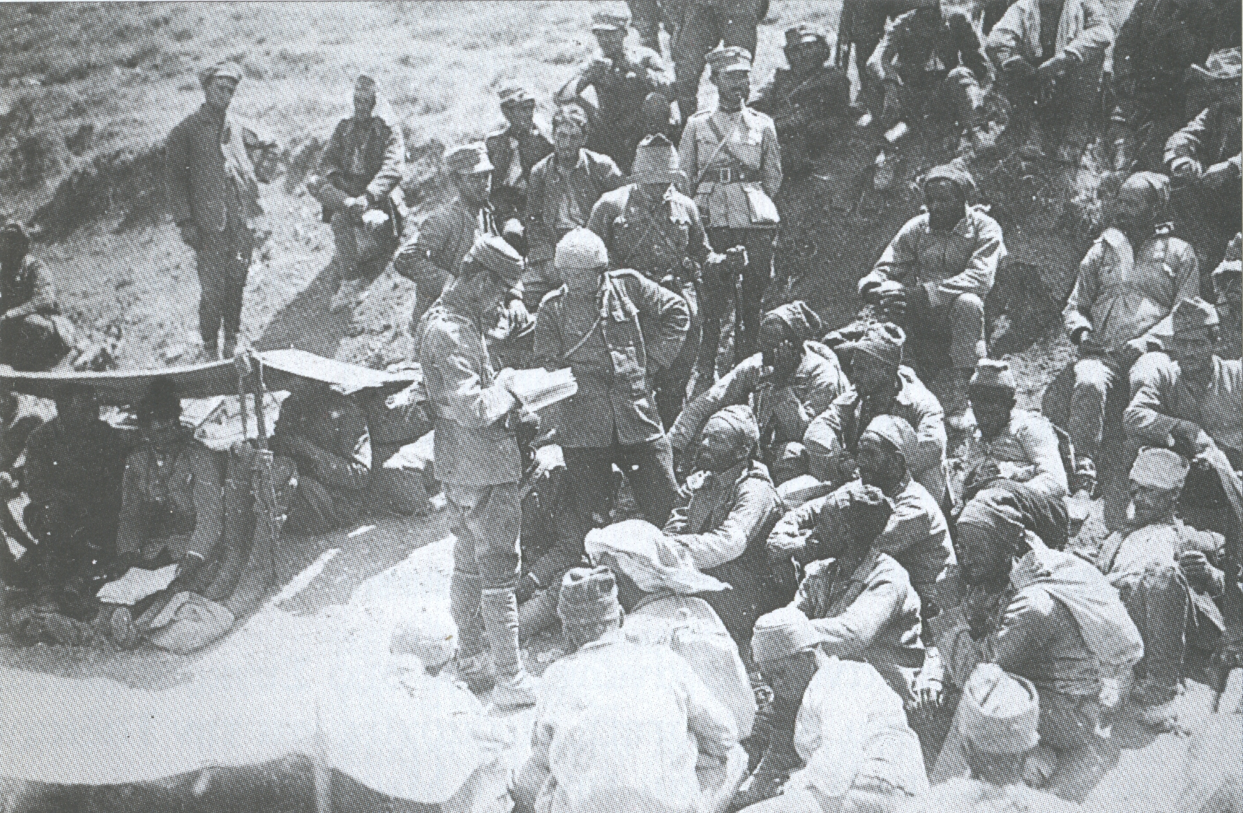 Recording of Turkish defectors and prisoners. The interpreter talks with a Turkish officer.